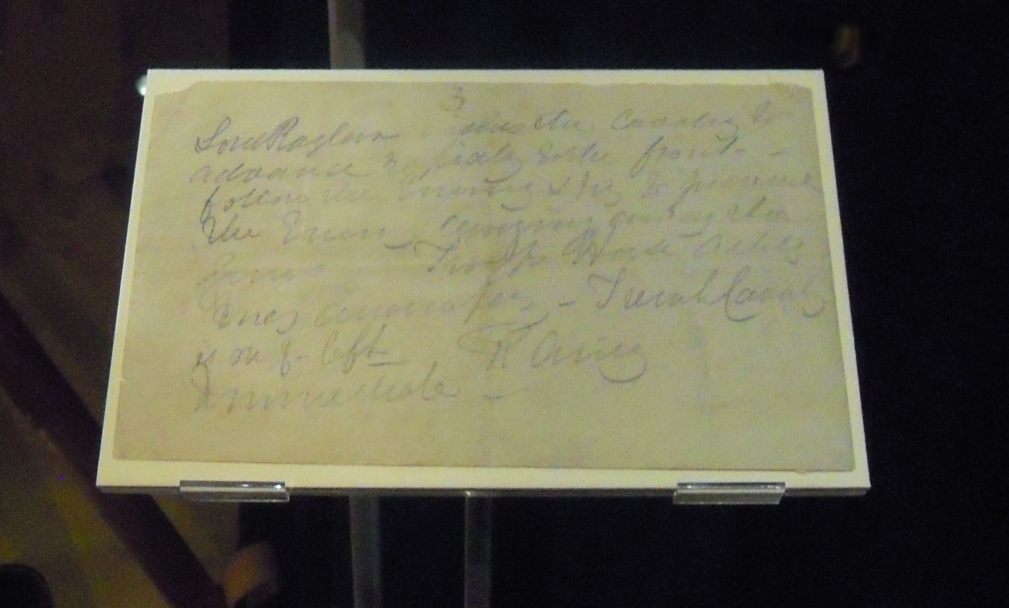 The written order which lead to the Charge of the Light Brigade in 1854